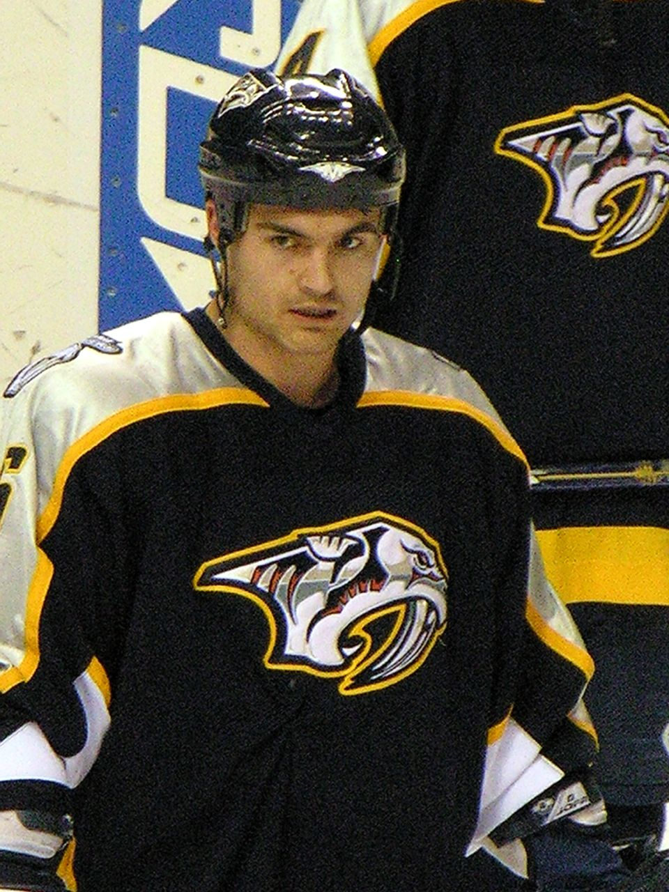 Darcy Hordichuk, ice hockey player, here seen playing for the Nashville Predators